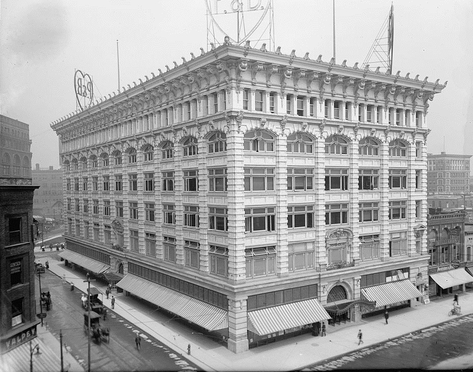 Photograph of the Partridge & Blackwell Department Store in Detroit, Michigan